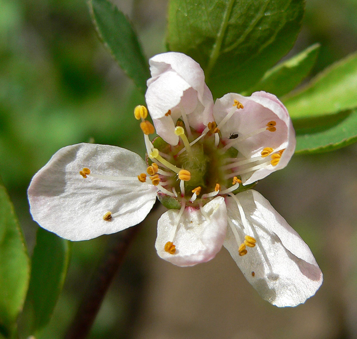 Photo of Prunus subcordata at the Regional Parks Botanic Garden, Berkeley, California